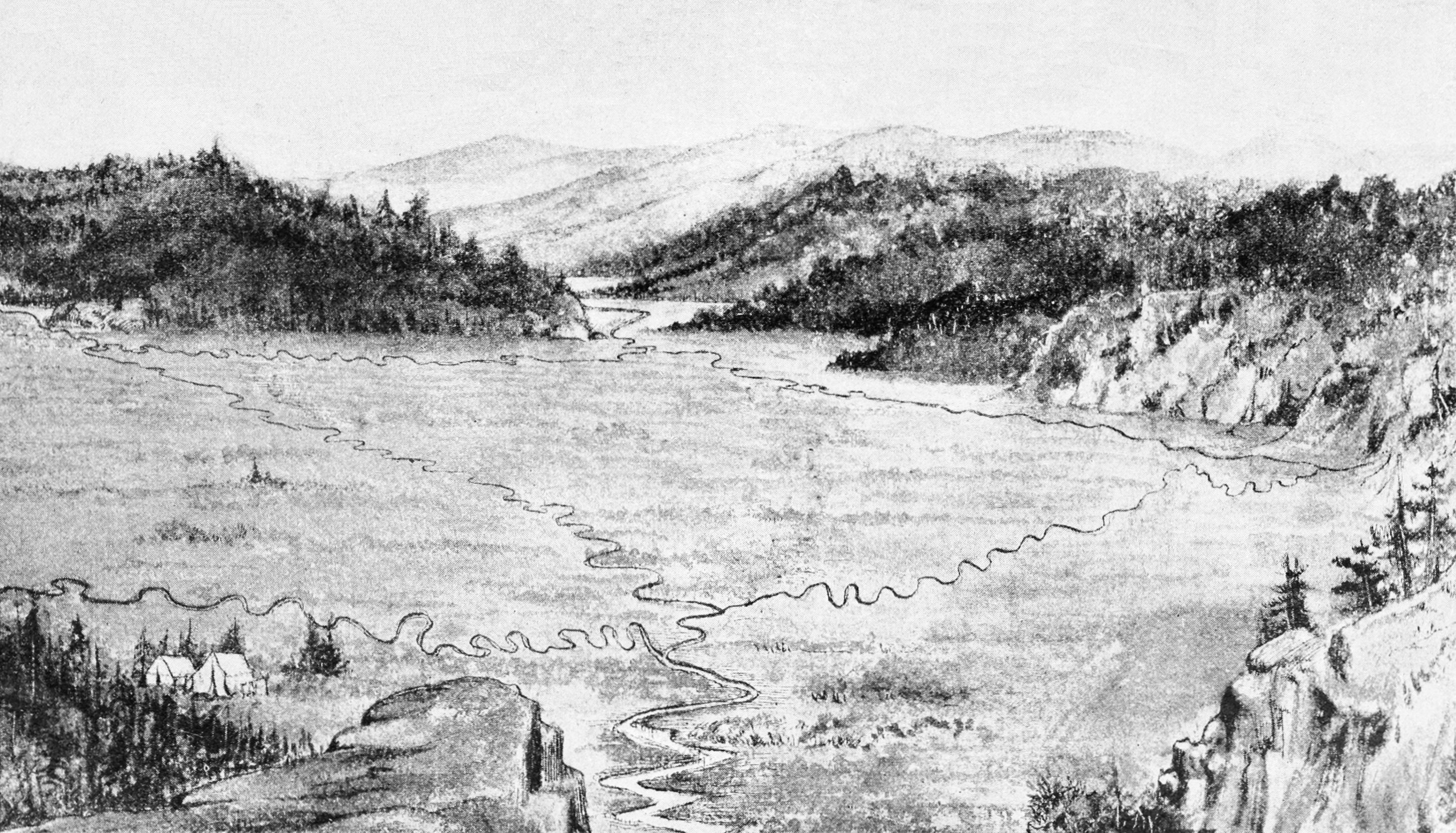 Two ocean pass looking east